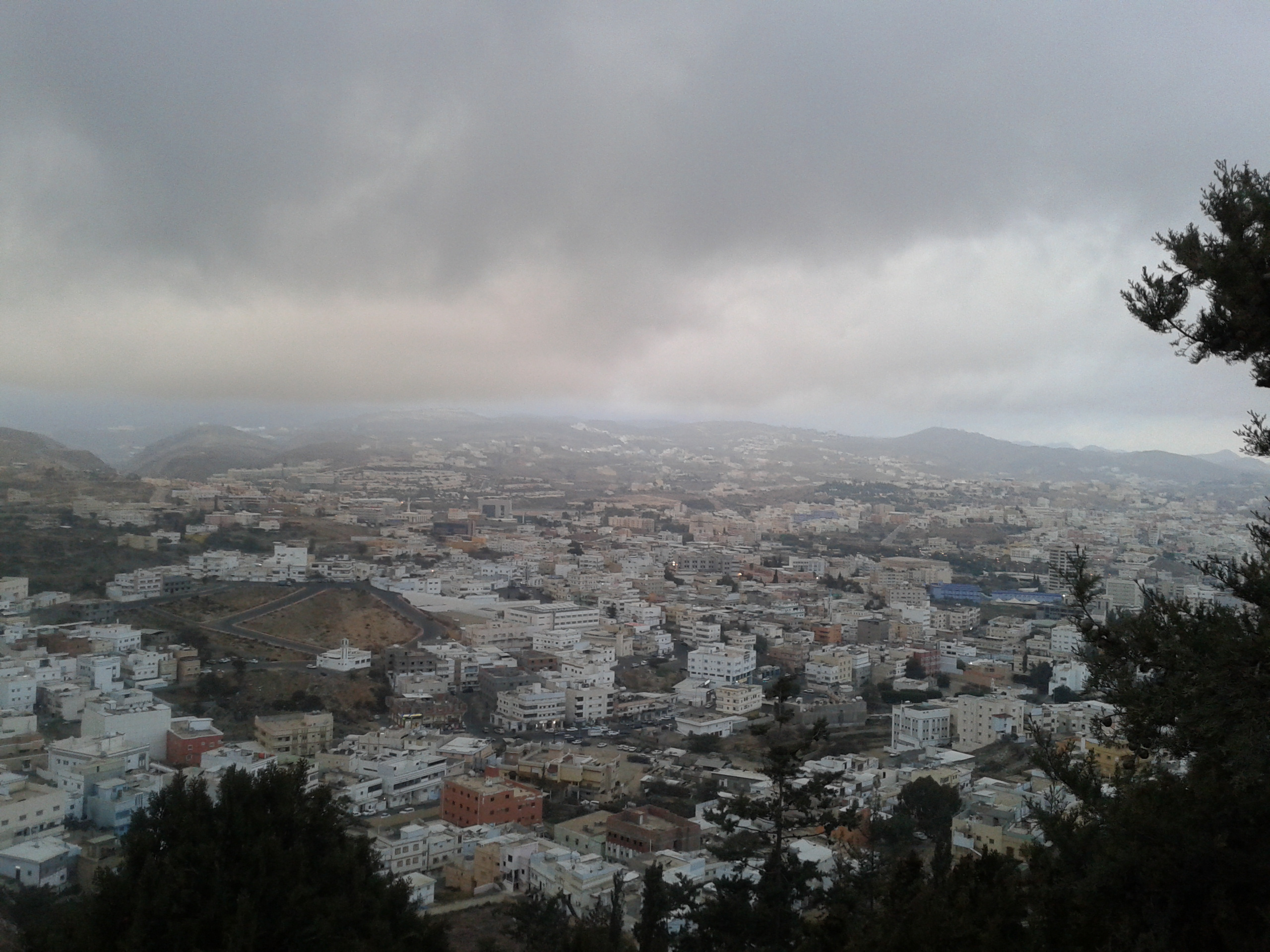 Abha city